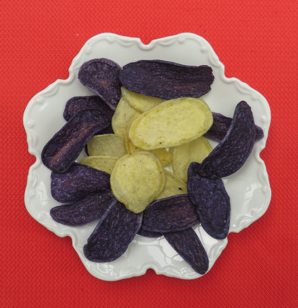 Blue potato chips made from Blaue St. Galler, a Swiss variety